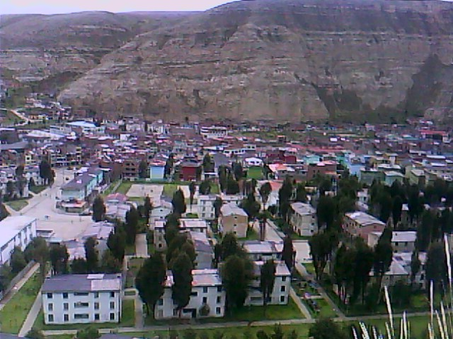 CAMPAMENTOS MARCAVALLE (in La Oroya Nueava, Junin Region, Peru)